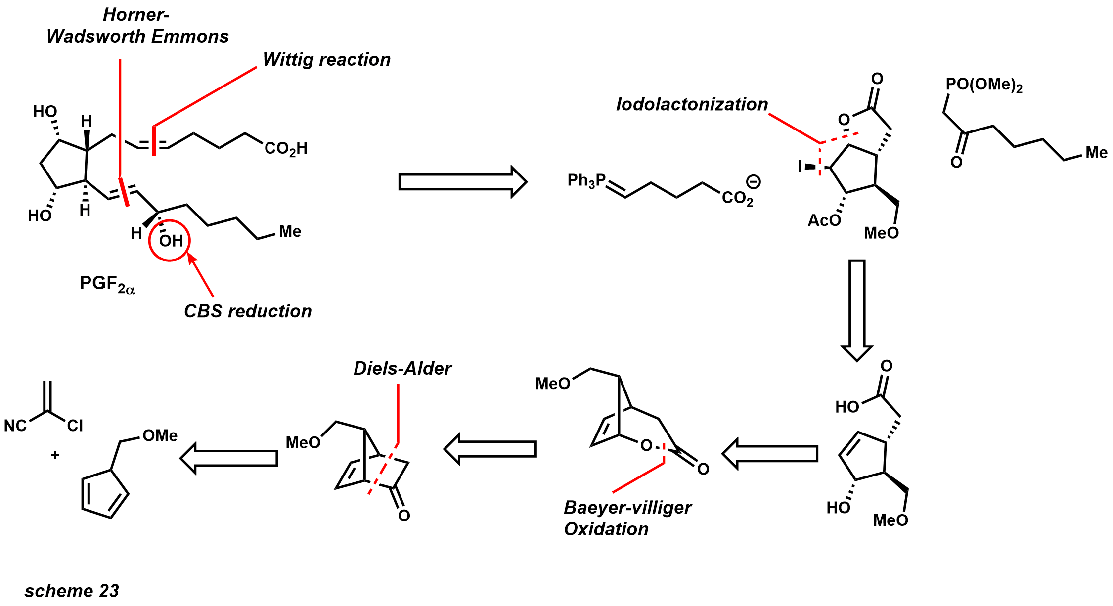 retosynthesis prostaglandin